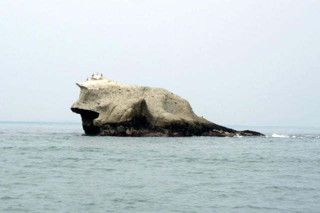 Kaerujima(Frog Island) in Oku-Matsushima